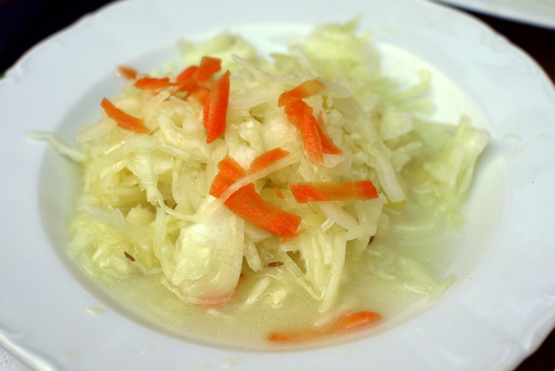 A Krautsalat is a cold, German salad made with sliced white cabbage and a dressing made from vinegar, oil, salt, pepper and caraway seed. The carrot is there for a bit of colour.